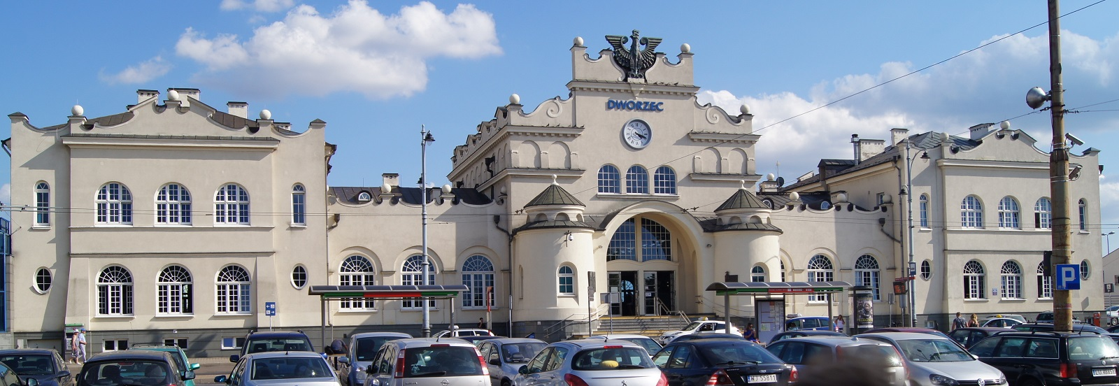 Main Train Station in Lublin - PKP